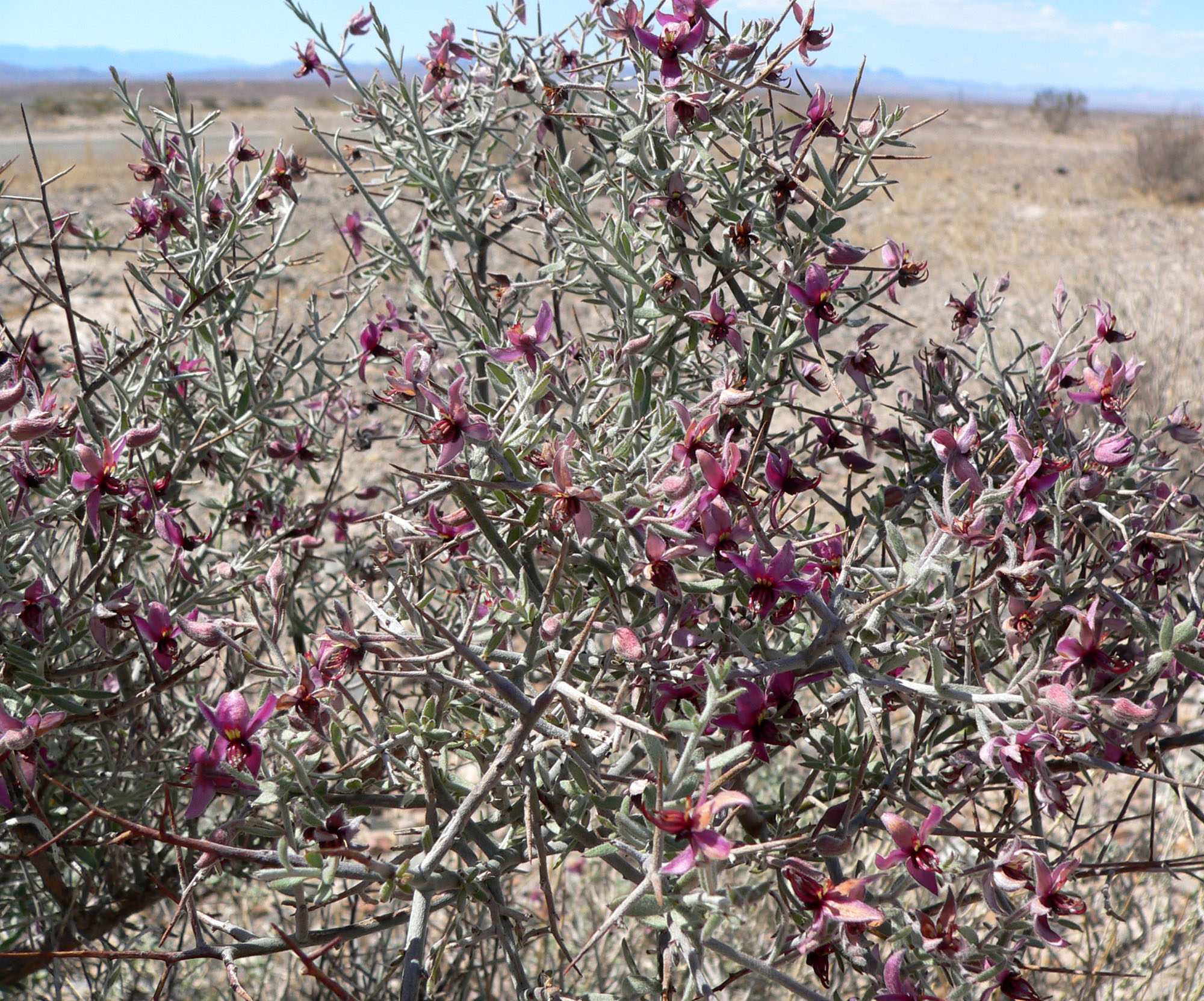 Krameria grayi near the Hidden Valley Road south of Moapa, southern Nevada